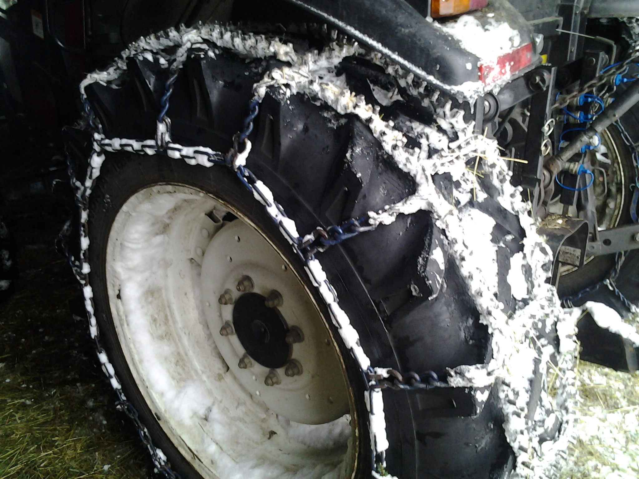 9mm boron steel snow chains on the rear tyre of a 67kW agricultural tractor. Finland, February 2013.